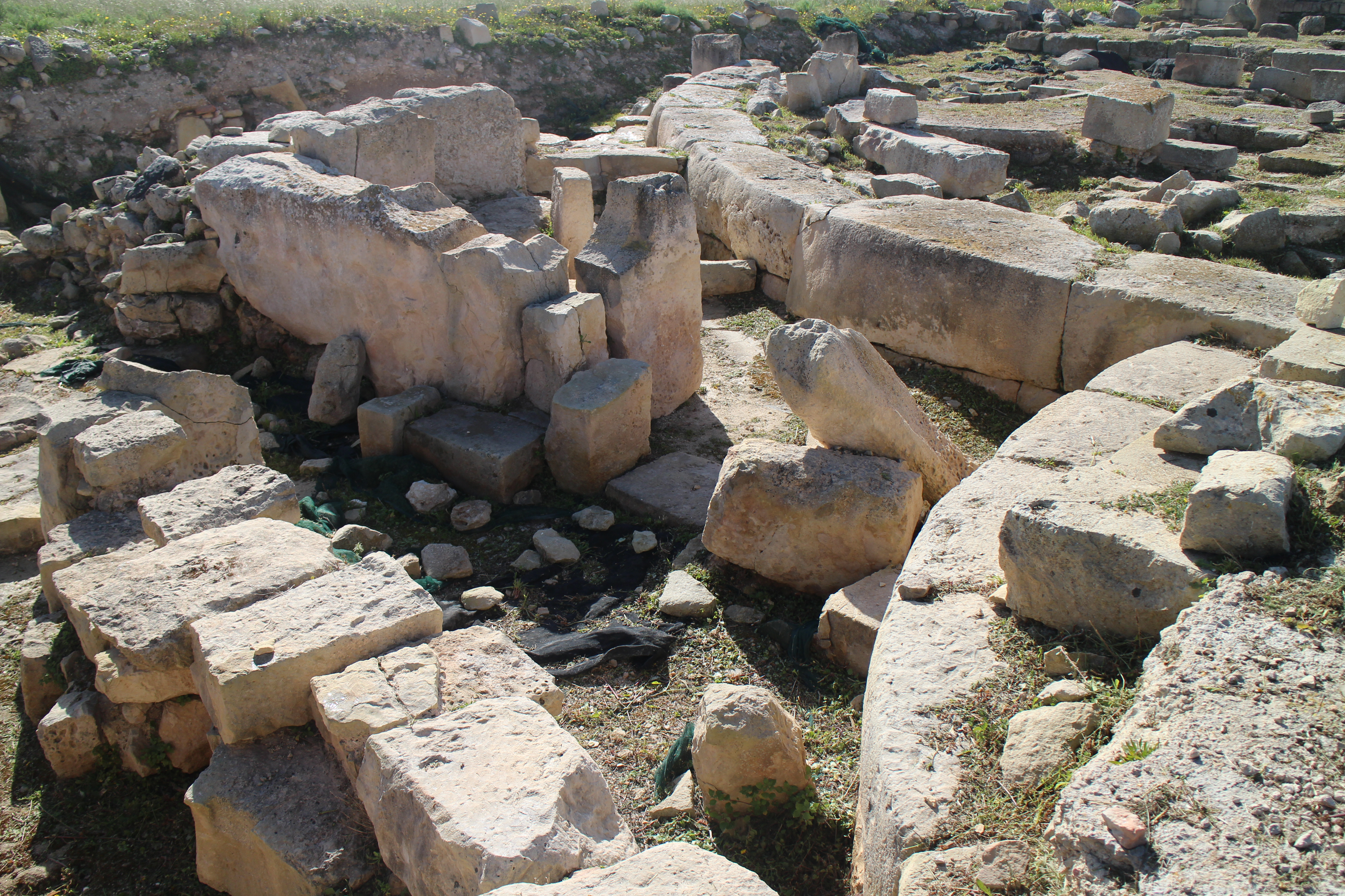 Tas-Silġ Temples, Triq Xrobb l-Għaġin in Marsaxlokk, Malta